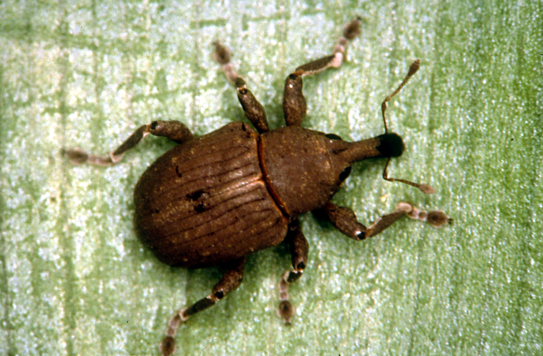 Water hyacinth remains one of the world's most serious aquatic weeds. Its invasiveness, high growth rate and high biomass disrupt aquatic ecology and fisheries and prevents the use of waterways for transport and recreation. It impacts severely on the livelihood of inhabitants of riverine and lowland areas in developing countries. Four agents released since 1975 have shown great success in controlling water hyacinth. The weevil Neochetina eichhorniae, the moth Niphograpta albiguttalis and this weevil, Neochetina bruchi, have greatly suppressed the growth of the weed in tropical and subtropical areas.